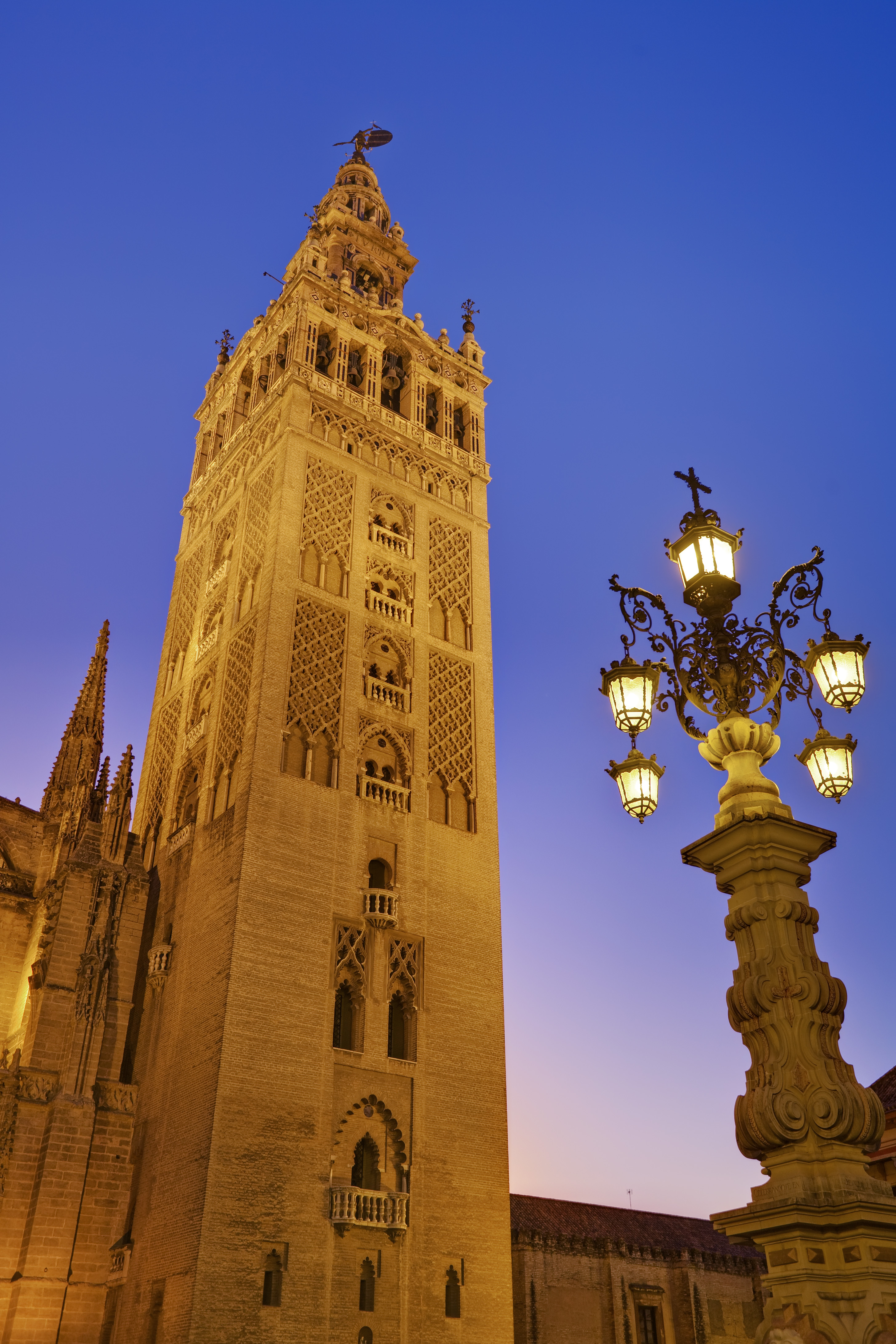 La Giralda at dusk, the tower of the Cathedral of Seville, as viewed from the Plaza Virgen de los Reyes in Seville, Spain. Taken with a Canon 5D and 17-40mm f/4L lens at 30mm.